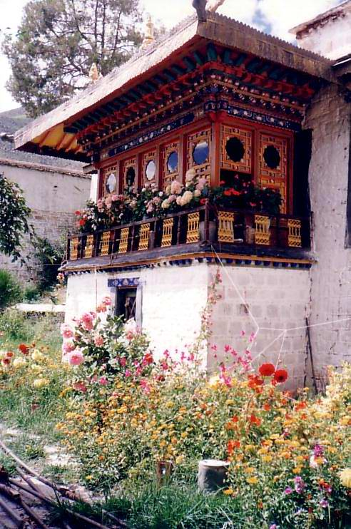 13th Dalai Lama Nechung retreat, original accompanying text: "I took this picture myself in 1993. John Hill 01:06, 29 January 2007 (UTC)"